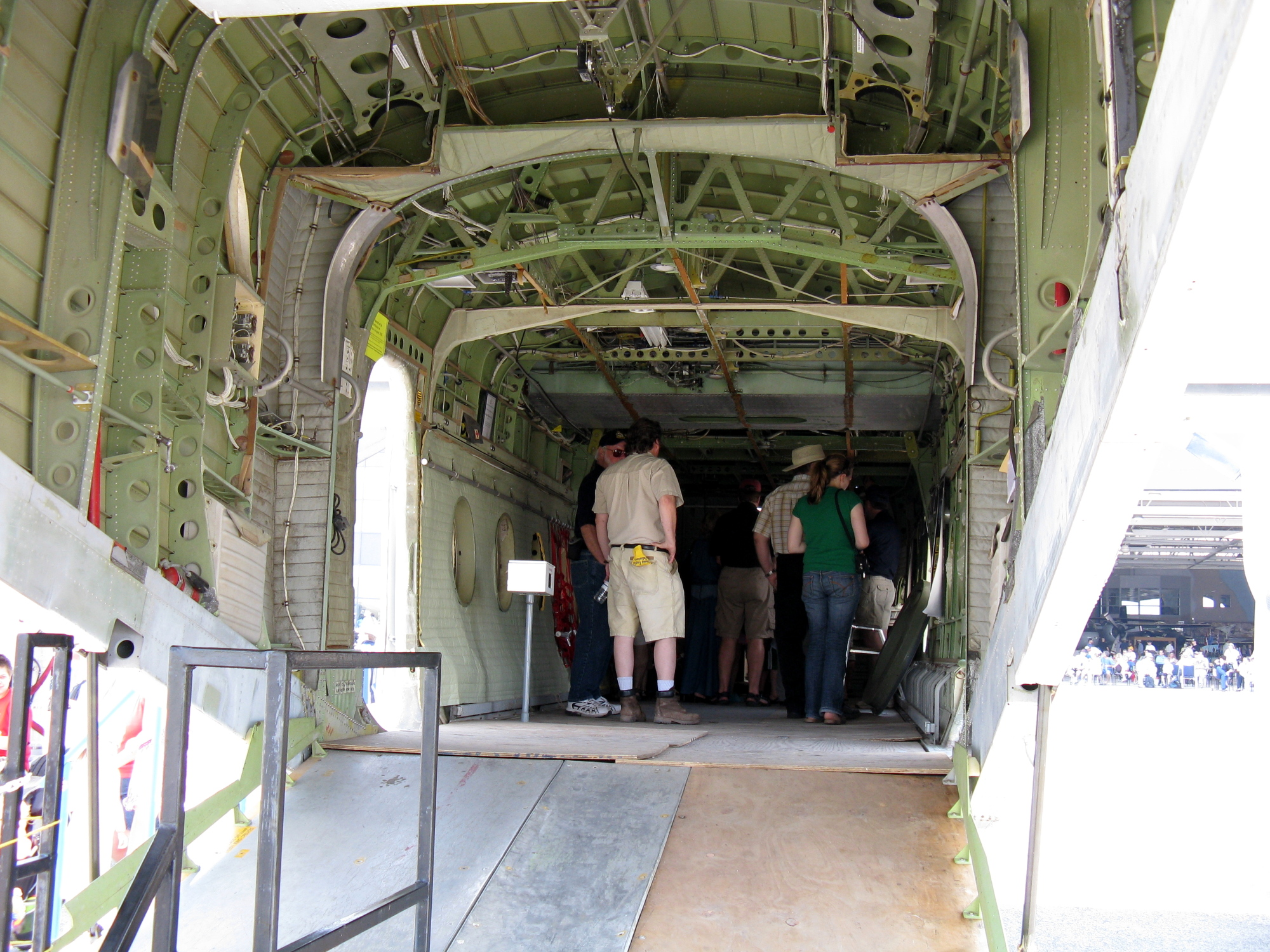 DHC-5 interior at Canadian Warplane Heritage Museum. This plane is a DHC-5D originally delivered to Sudanese Air Force. It was acquired by the museum and restored to represent CAF Buffalo painted in UN colors.